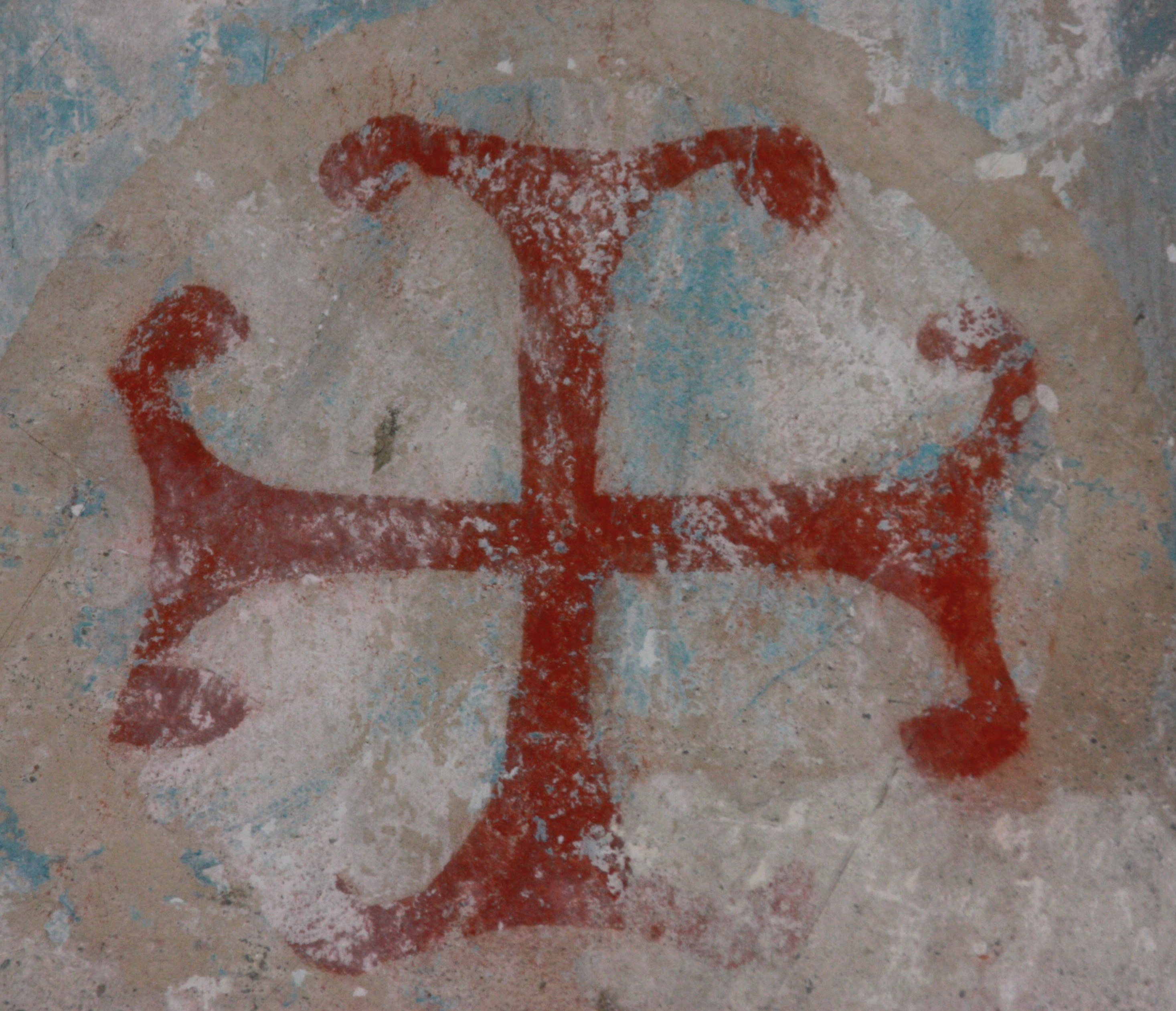 Parish church - Painted cross Locality:Metnitz Community:Metnitz